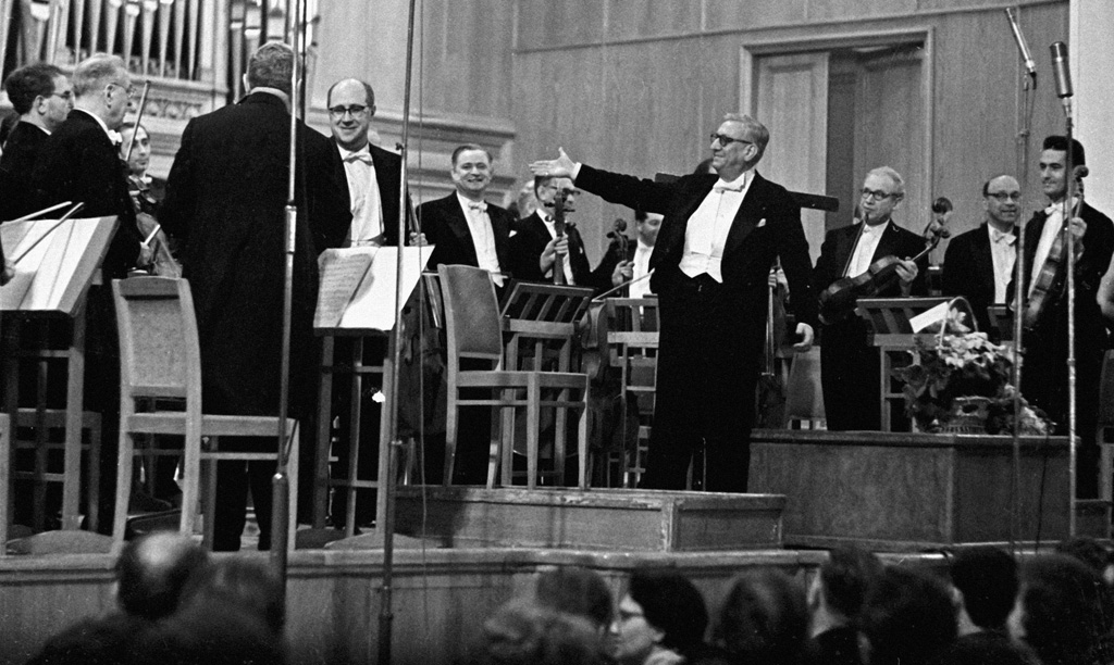 “анри согэ и мстислав ростропович”. French composer Henri Sauguet (fourth left), Conservatory Grand Hall.